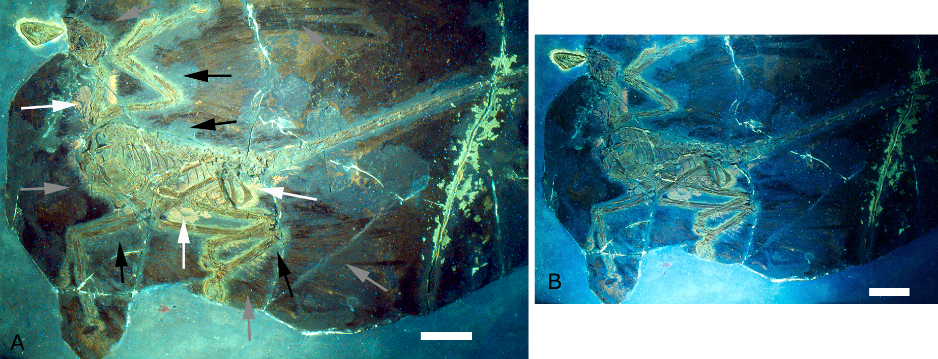 The holotype of Microraptor gui, IVPP V 13352 under UV light. Different filters were employed for parts A and B, hence the difference in colour and appearance. A also is labeled to indicate the preserved feathers (grey arrows) and the 'halo' around the specimen where they appear to be absent (black arrows) as well as phosphatised tissues (white arrows). Scale bars are 5 cm in both A and B.